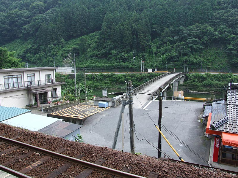 MUKUNO Station